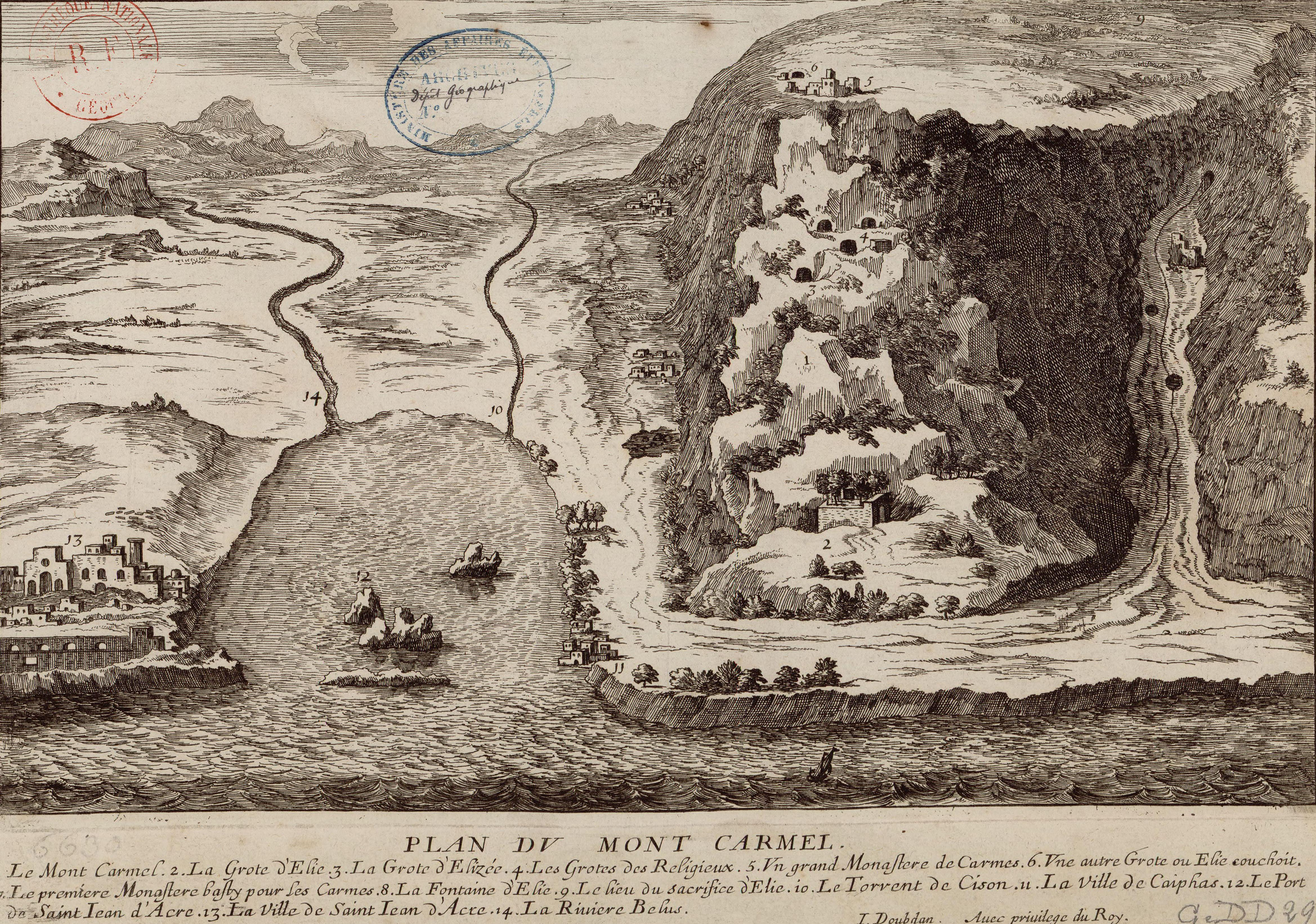 Doubdan, Jean. Le voyage de la Terre Sainte. Paris, 1666. beteween pp.490-1. 3rd edition of the book. First published in 1657. Plan du Mont Carmel [cartographic material] / I. Doubdan.